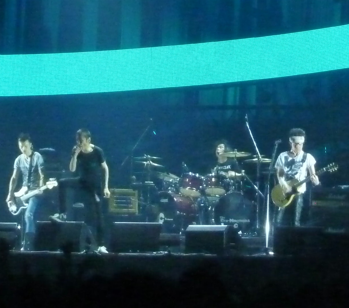 Japanese rock group The Cro-Magnons at the "Countdown Japan" music festival.) Personality rights warning Although this work is freely licensed or in the public domain, the person(s) shown may have rights that legally restrict certain re-uses unless those depicted consent to such uses. In these cases, a model release or other evidence of consent could protect you from infringement claims.